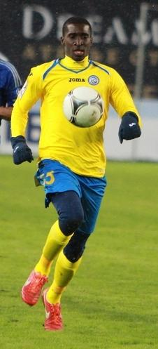 Siyanda Xulu playing for FC Rostov in 2013.